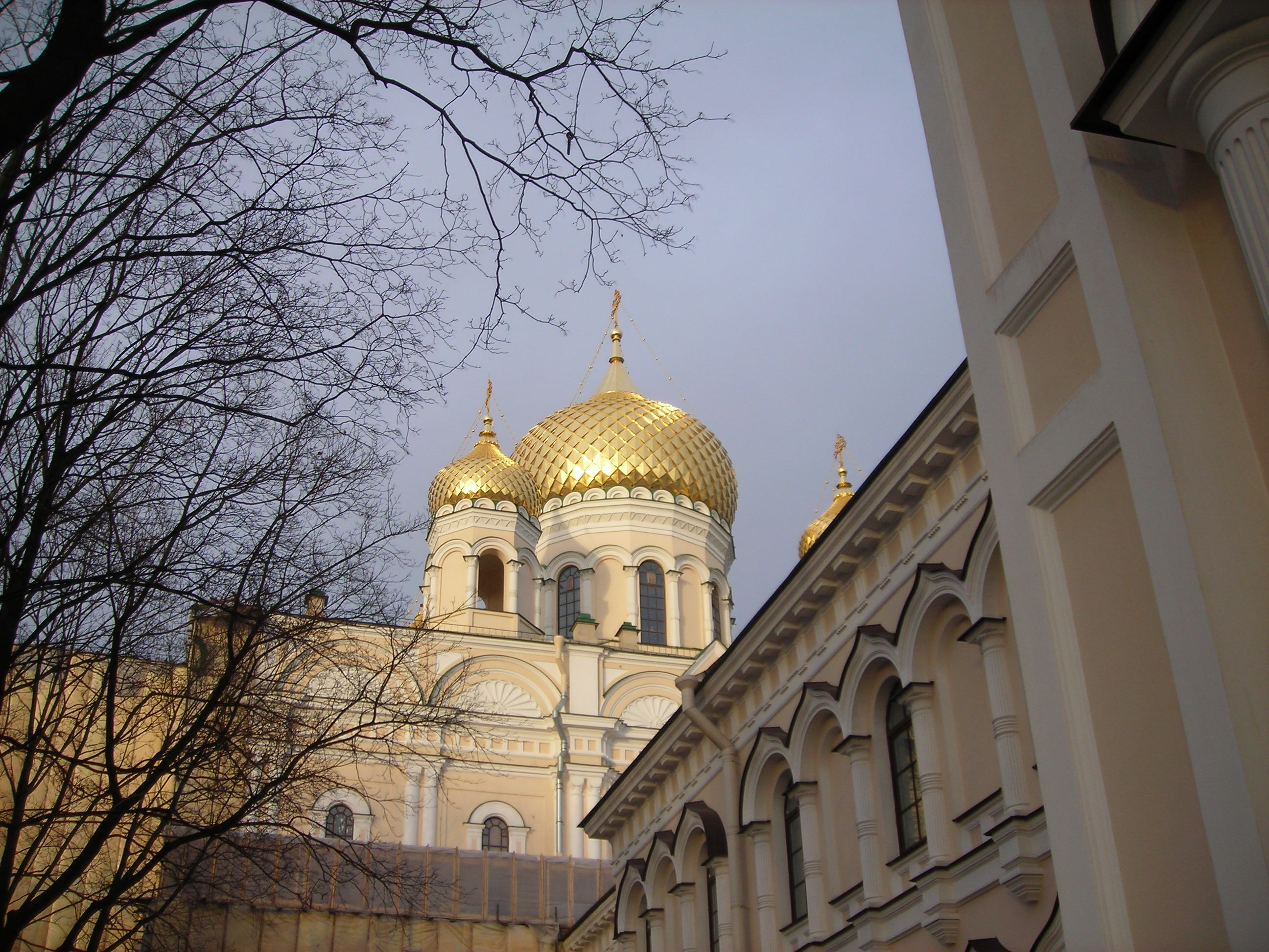 Saint Petersburg (Russia), Moskovsky Avenue.